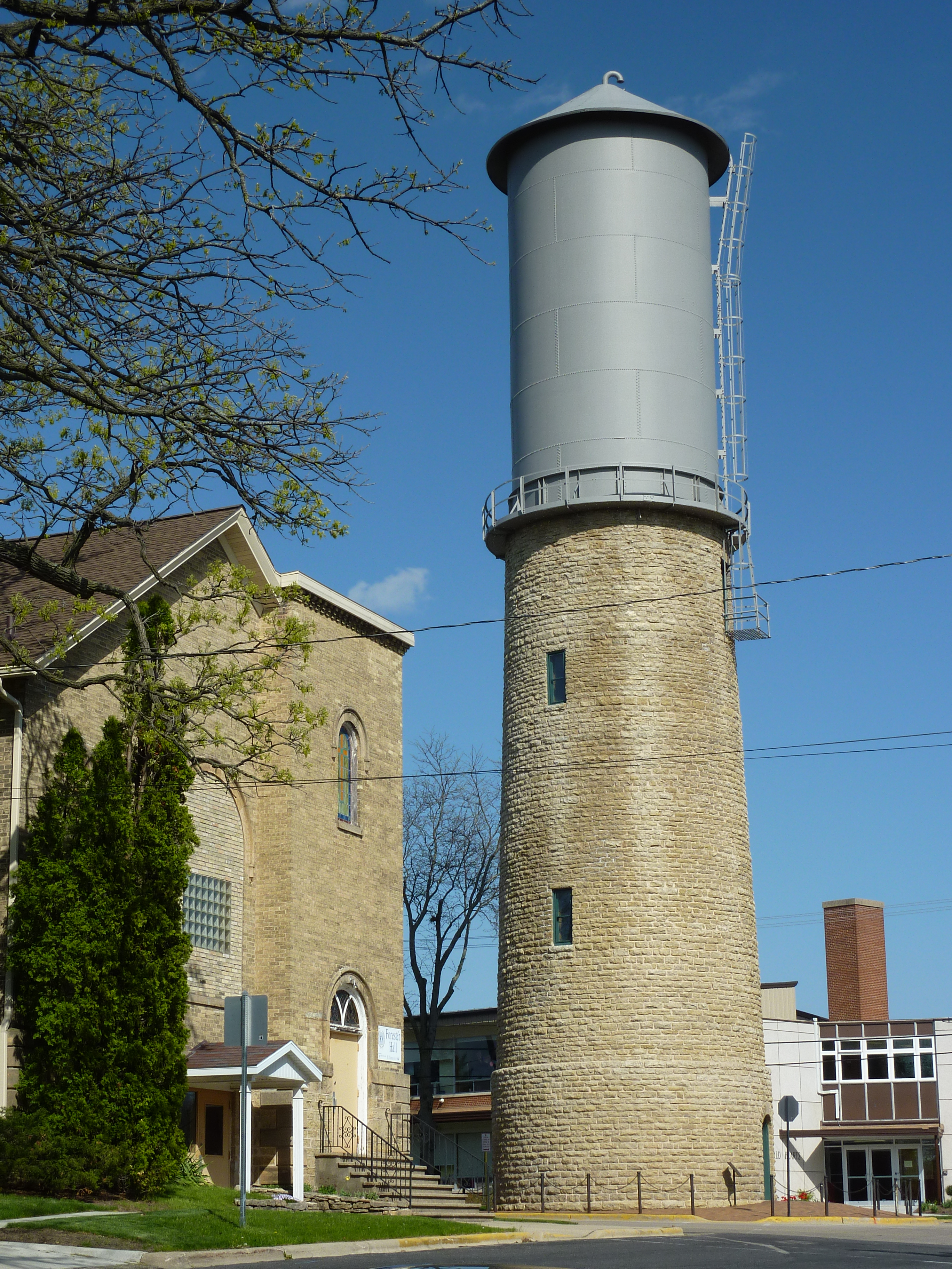 The Sun Prairie Water Tower, located at the junction of Columbus, Church and Cliff Streets, was designed by Frank Stegerwald and constructed in 1899 and 1912. It was added to the National Register of Historic Places in 2000.